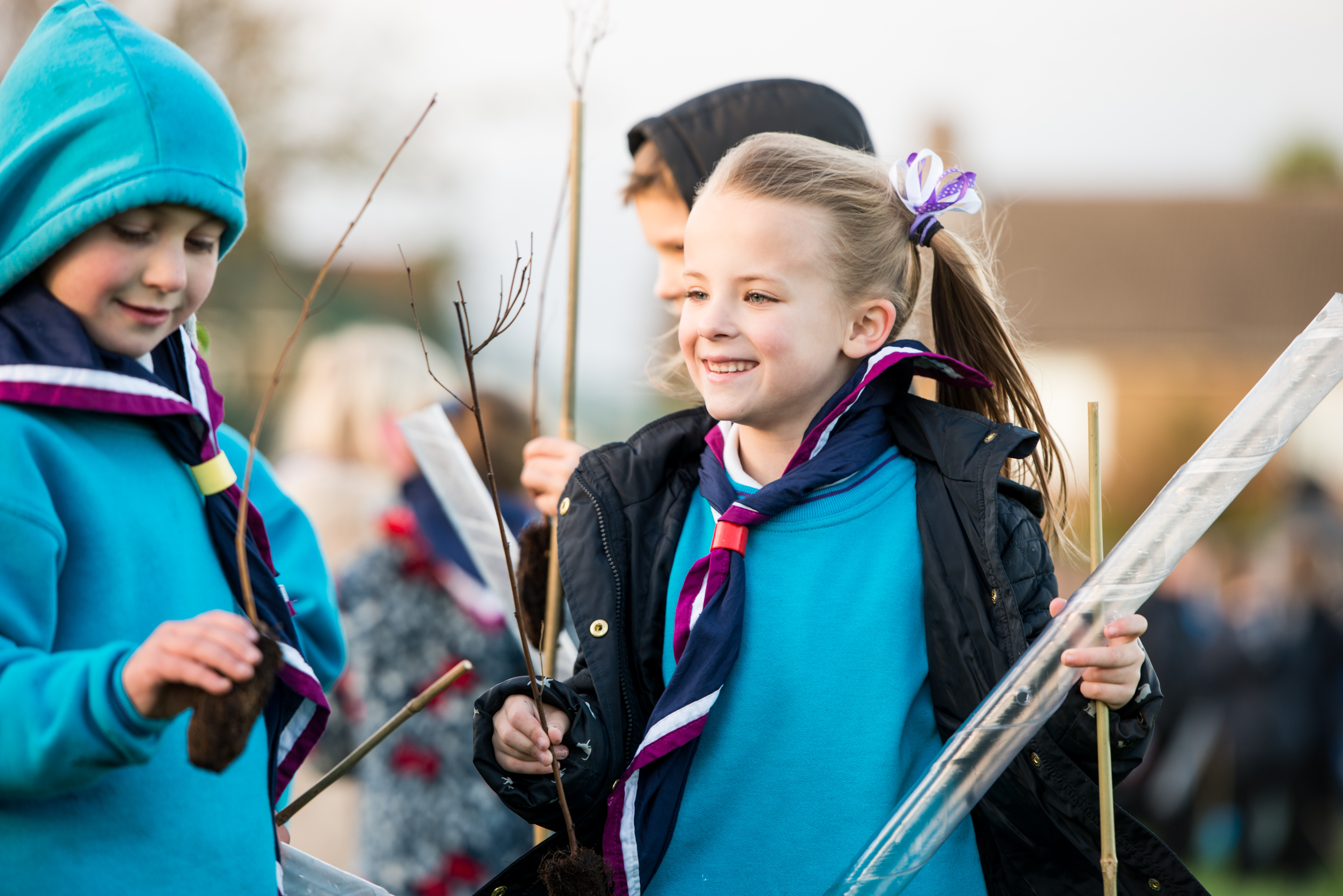 This is an image from the The Scout Association's 'Better Prepared' project. This was an initiative which allowed The Scout Association to open new Scout groups in 200 of the most deprived areas, thanks to funding from the Youth United Foundation to provide more young people with the opportunity to be involved in the organisation.